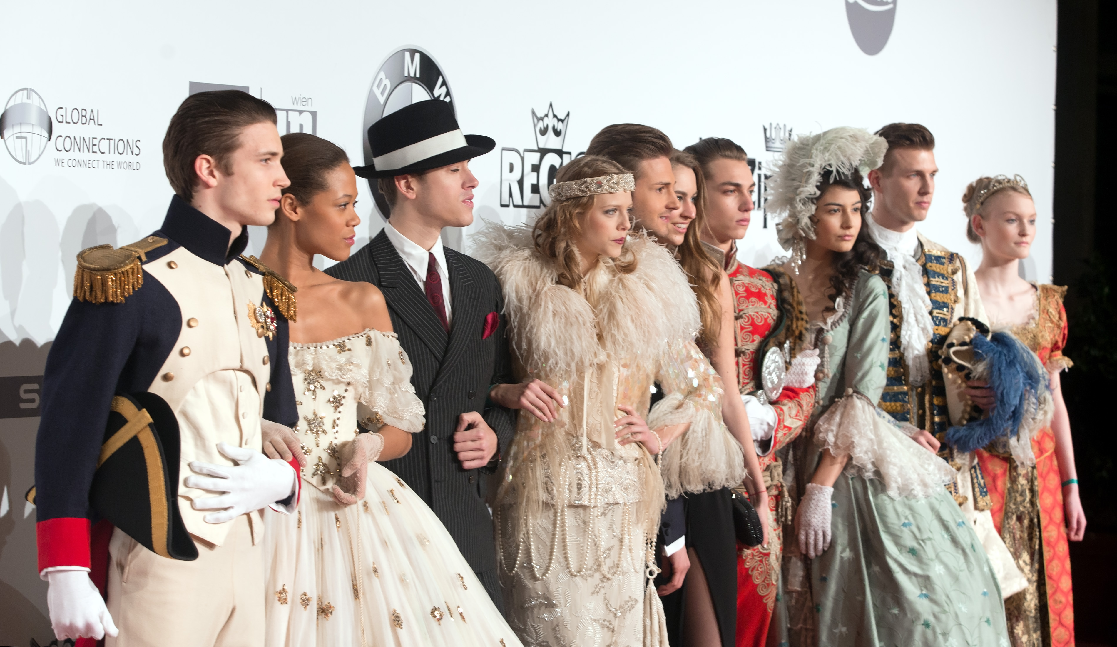 Models with costumes by Lambert Hofer on the red carpet of the Filmball Vienna at Rathaus, Vienna, Austria.